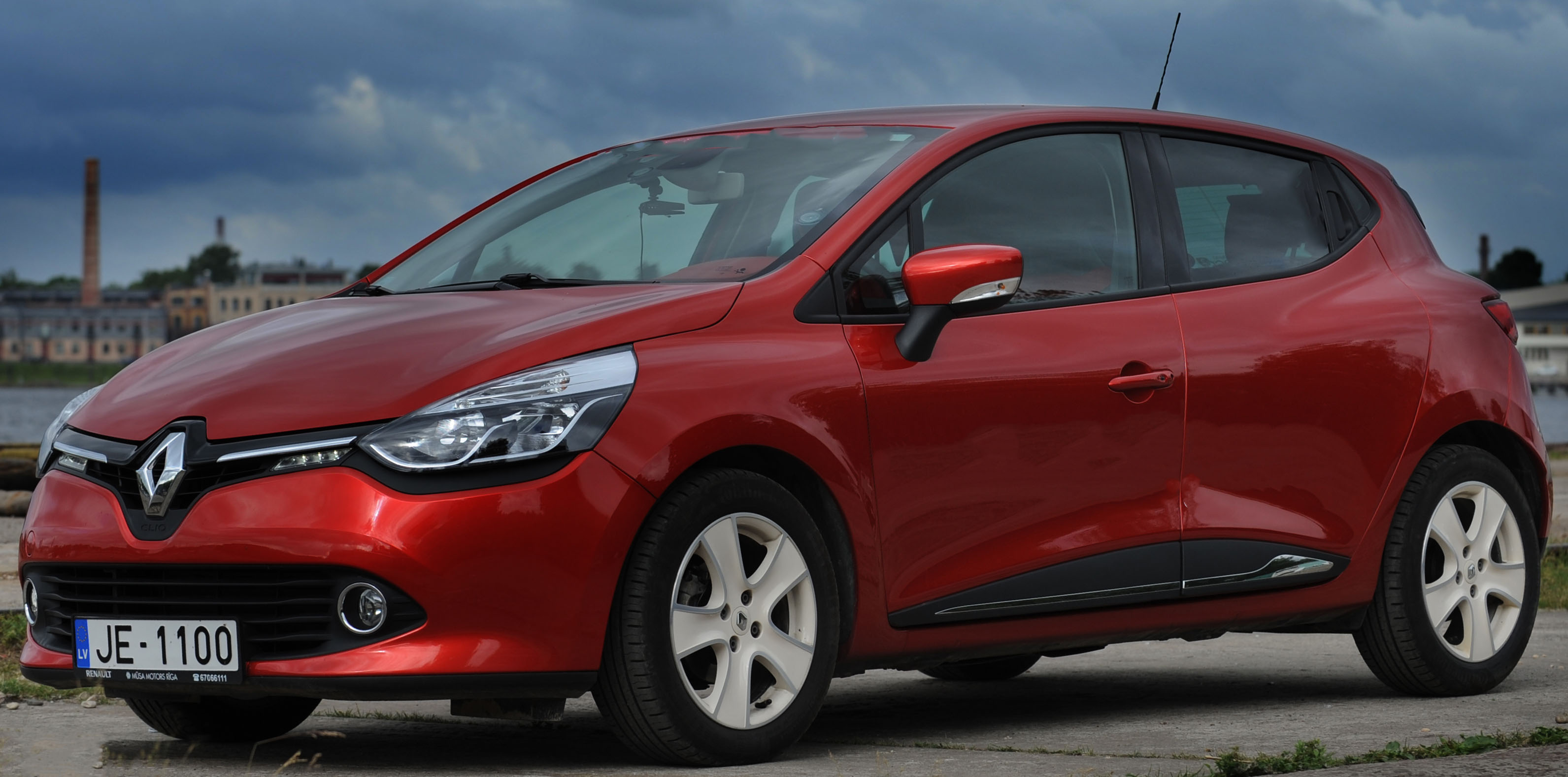 2013 Renault Clio (X98) TCe 90 hatchback. Photographed in Latvia